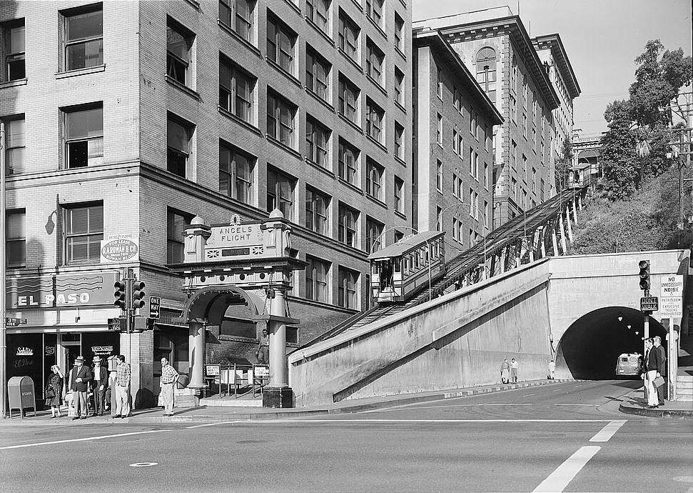 Angels Flight, Third & Hill Streets, Los Angeles, Los Angeles County, CA.